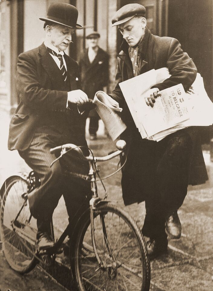 Photograph of Alfred Byrne purchasing a newspaper in Dublin. Byrne is sitting on his bicycle while completing the transaction. Photograph scanned from the Alfie Byrne Collection courtesy of the Little Museum of Dublin